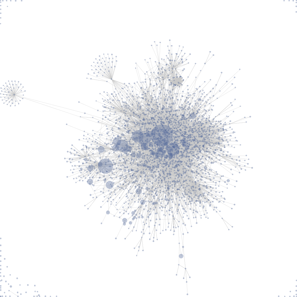 Visualization of the link structure of a wiki, created using the Prefuse visualization package for Java. Size of the nodes represents relative activity (number of edits) during a particular day. Further work has been done to turn this into an animation of wiki growth over time